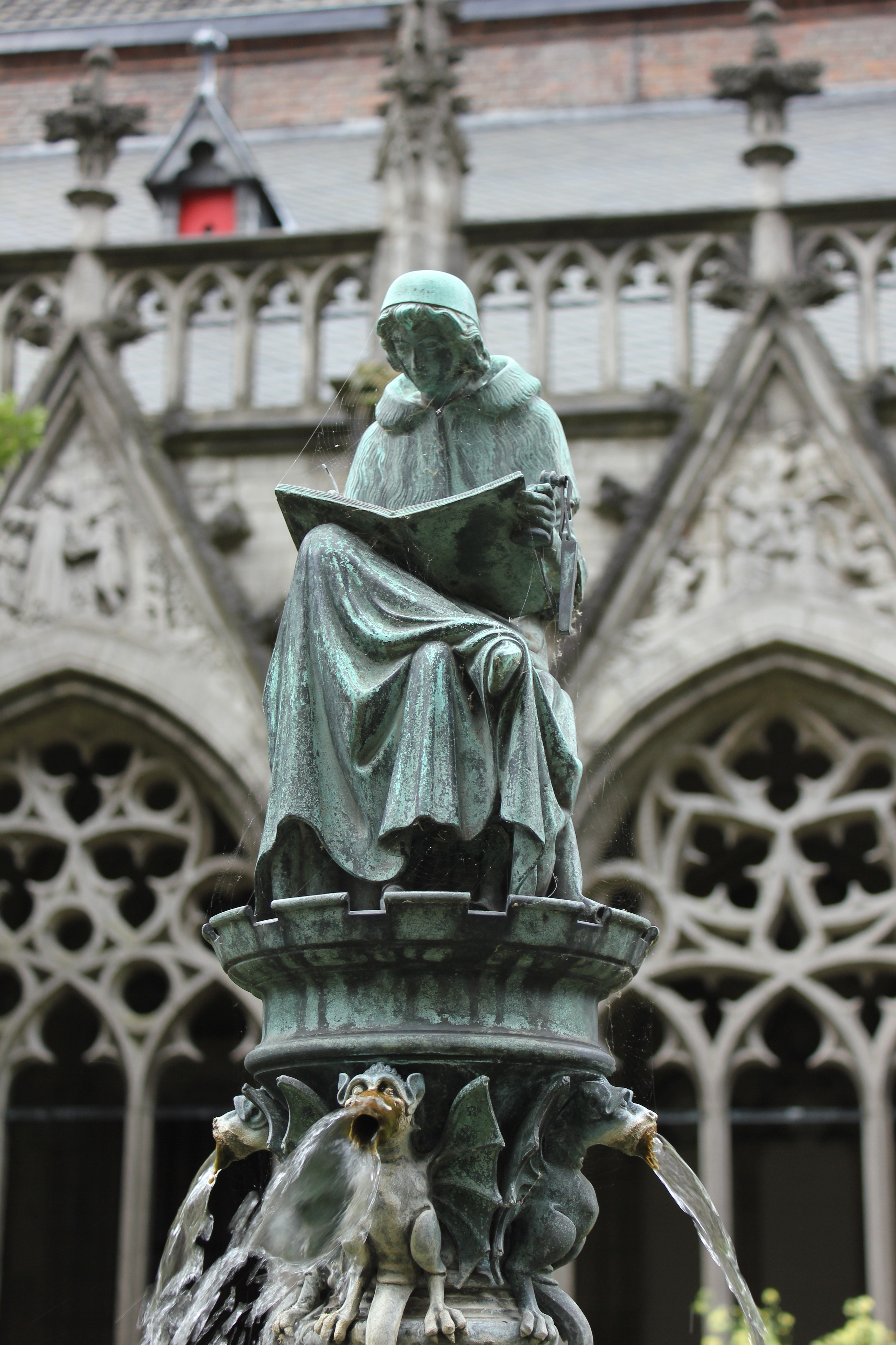 Statue in Pandhof Utrecht